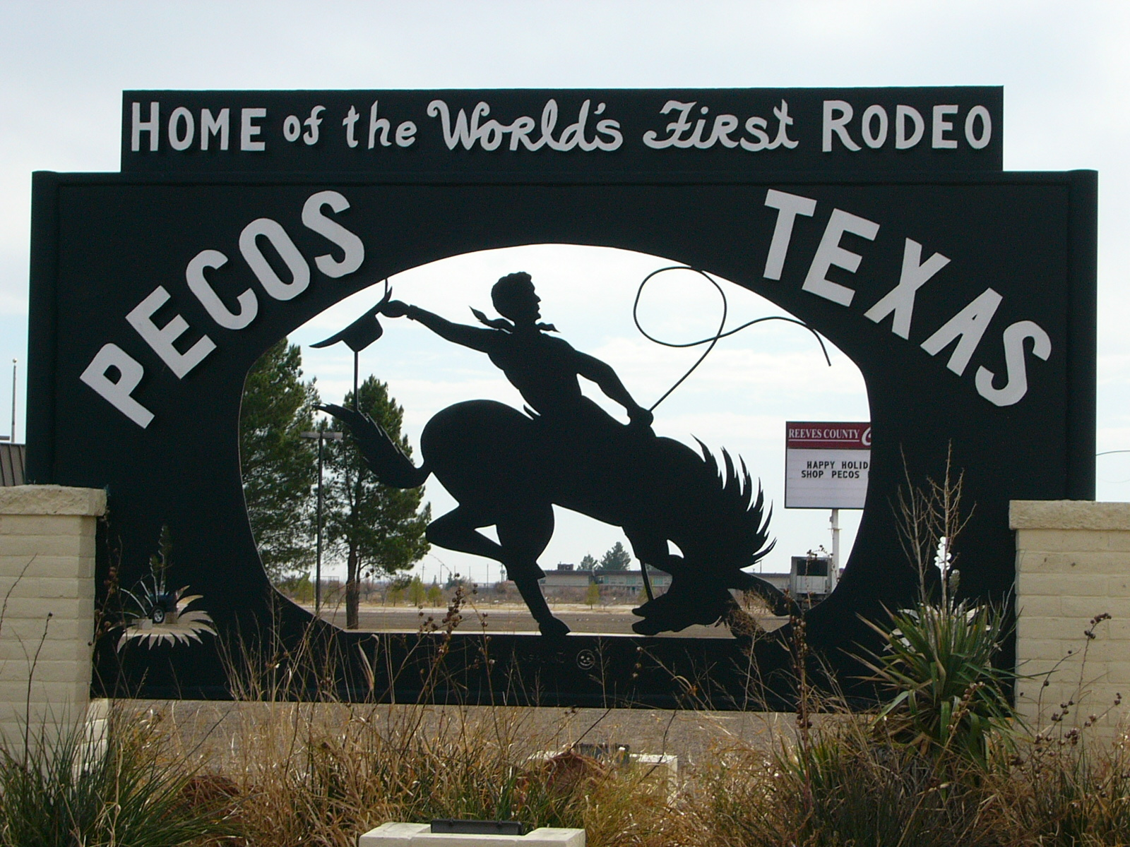 Yufei Yuan on December 28th, 2006.